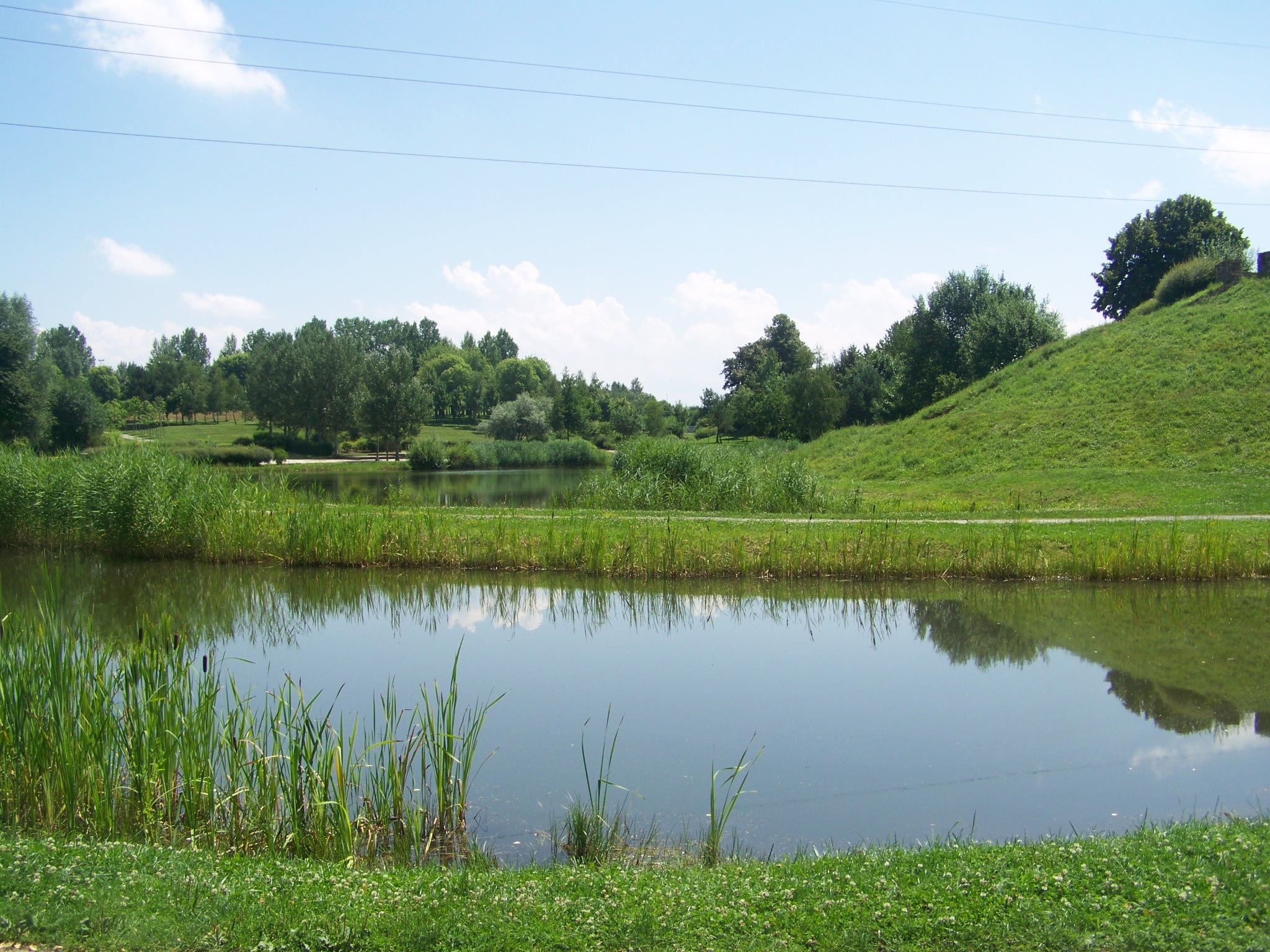 Parc de la Douce park, in Belfort, France.